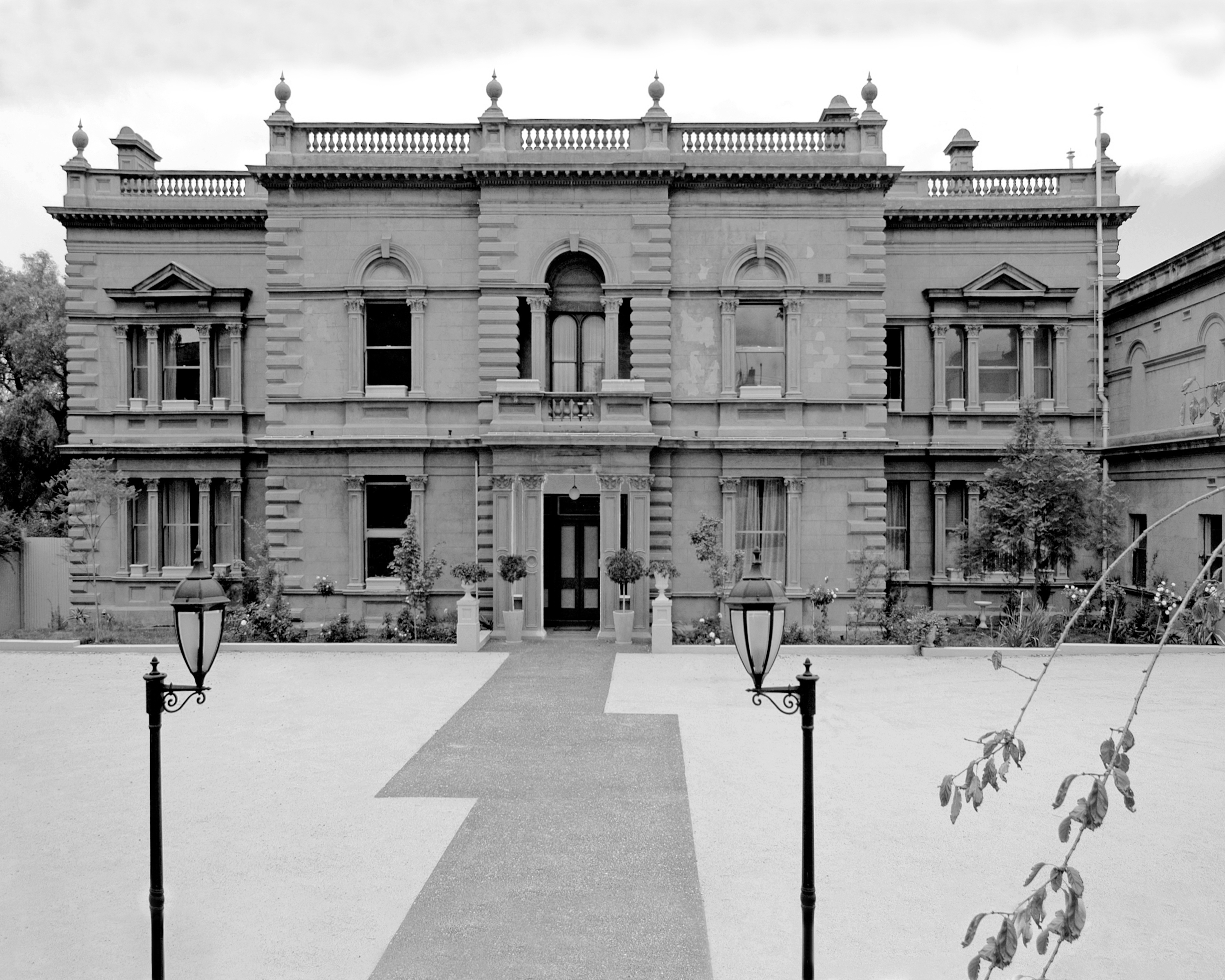 Eildon Mansion, Melbourne, Australia